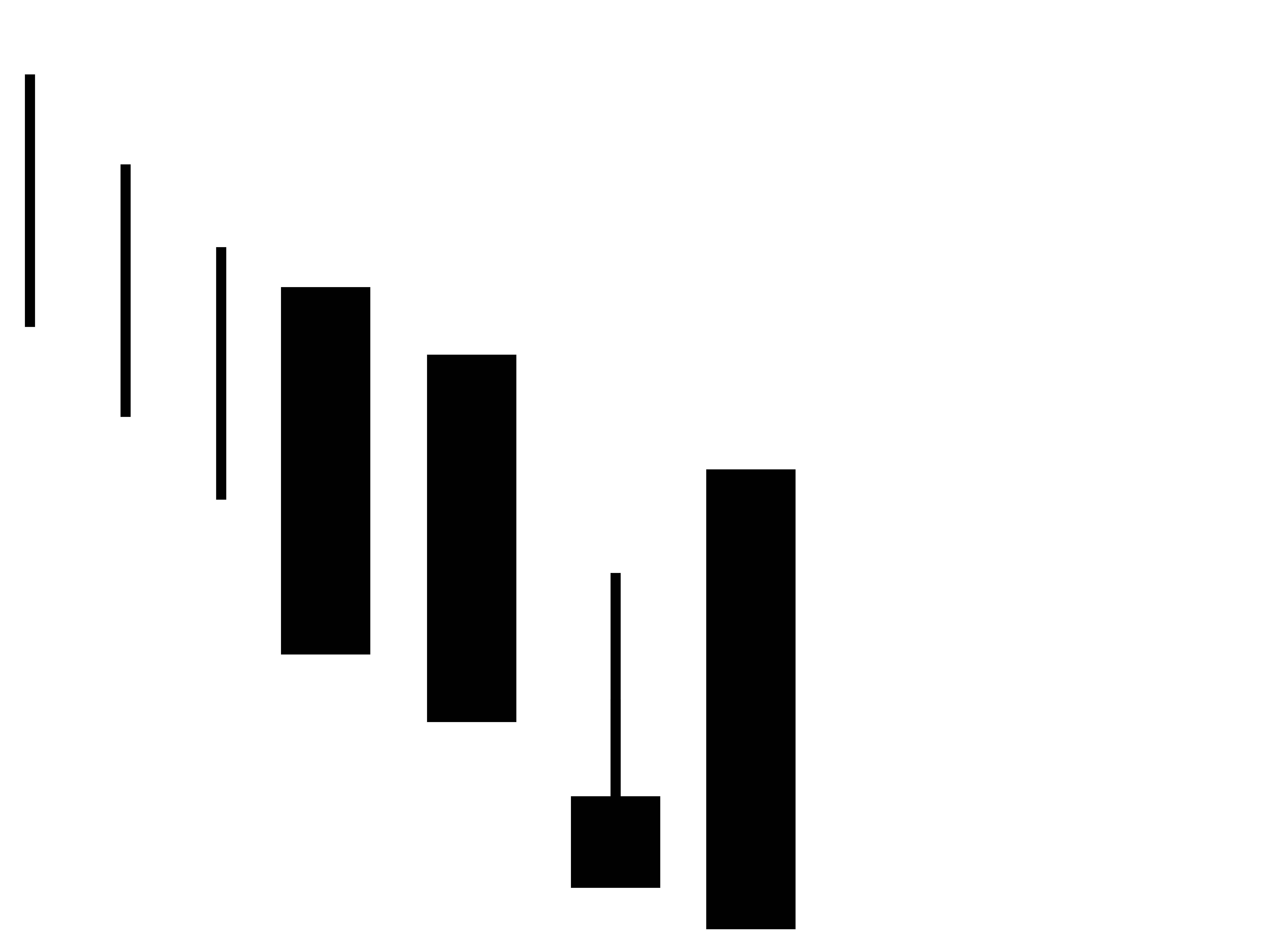 Bullish Concealling baby swallow